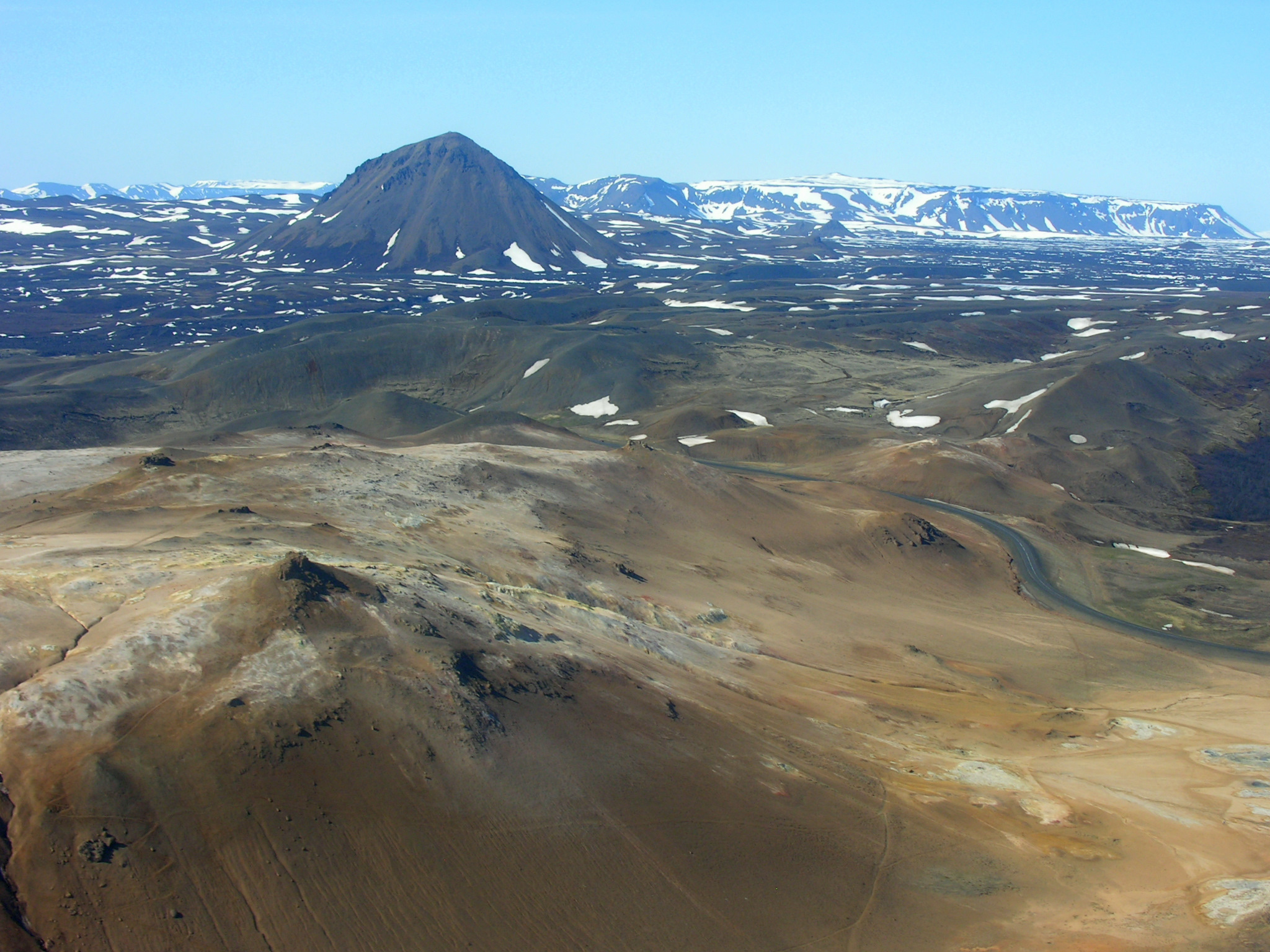 Aerial View of Jónstindur